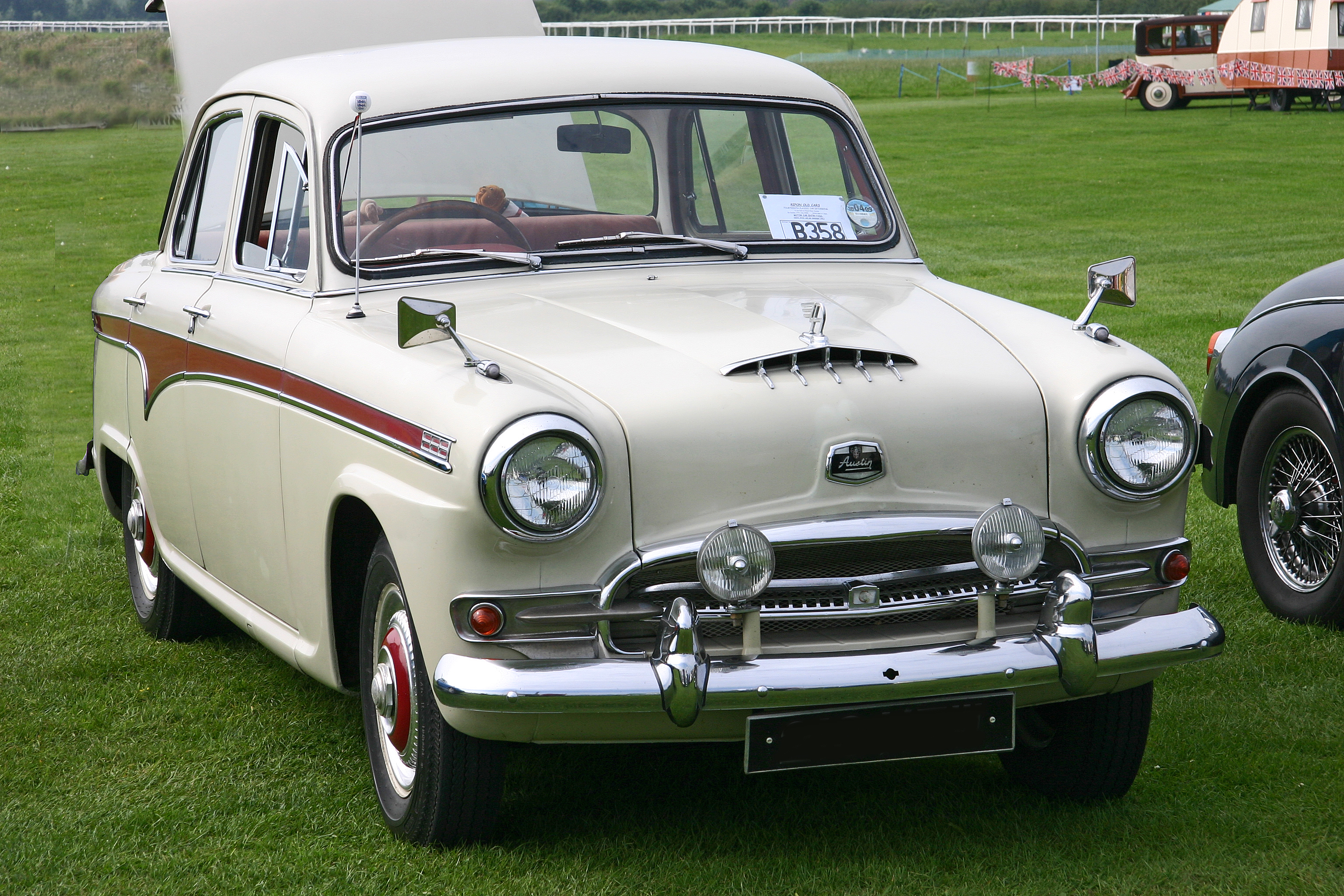 Austin A95 Westminster. In October 1956 Westminsters gained a longer wheelbase and a longer boot. The A90 was relaunched as the A95 and the engine retuned to give 92bhp